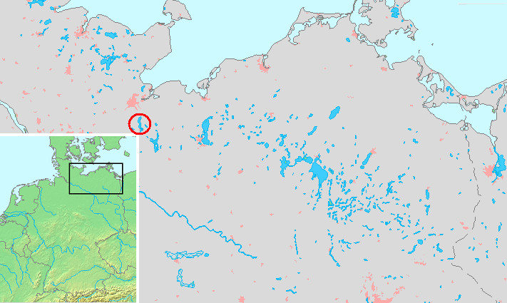 Locator maps of lakes in Germany : Location Grosser Ratzeburger See.PNG